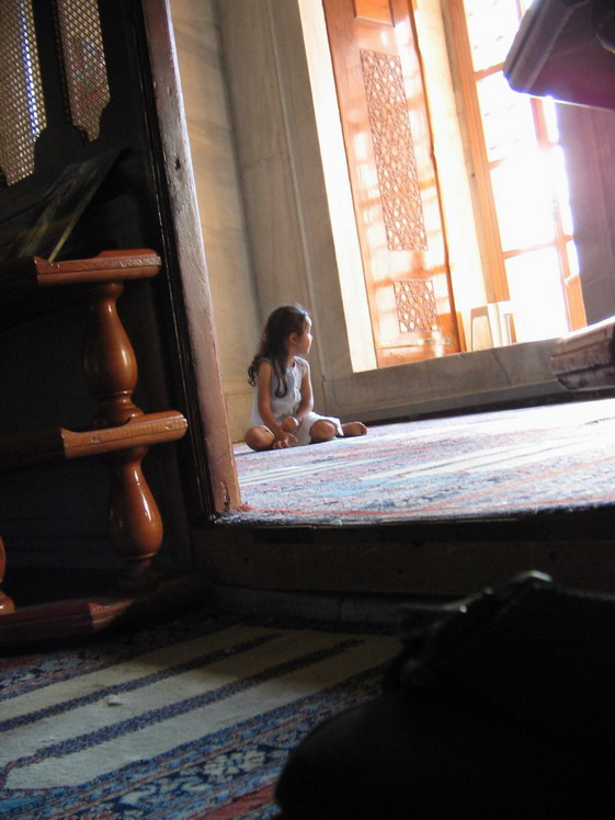 Girl in Süleymaniye Mosque, Istanbul